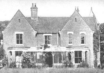 Borley Rectory